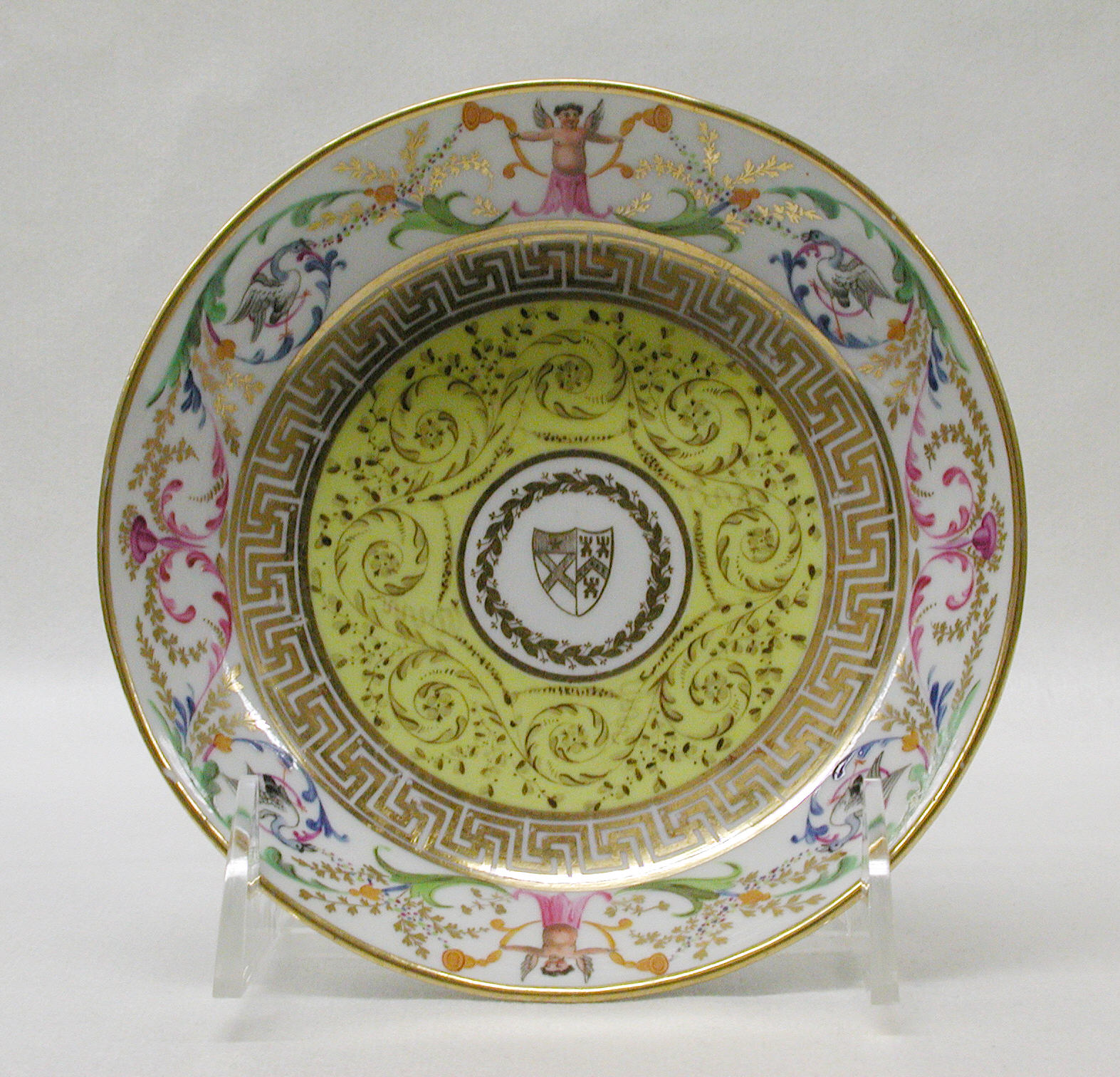 British, Worcester; Teacup and saucer; Ceramics-Porcelain